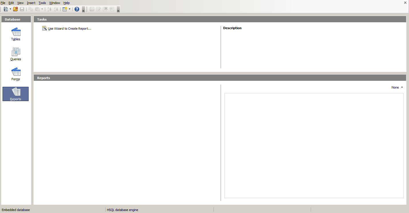 oo base 3.4.1